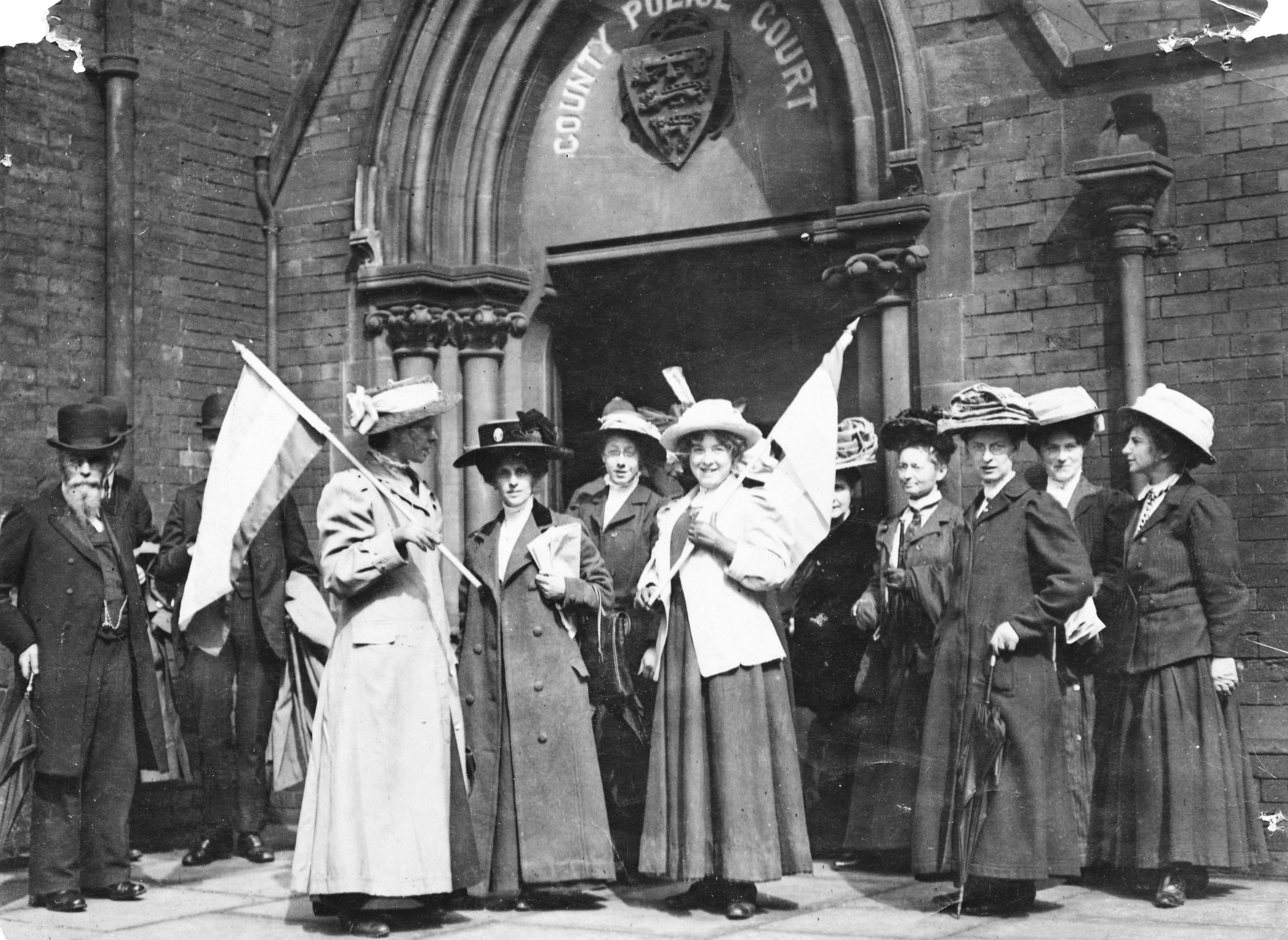 Mabel Capper and fellow Suffragettes demonstrating outside the Police Court 1911